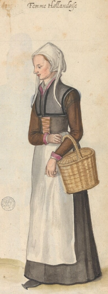 Excerpt from the manuscript "Théâtre de tous les peuples et nations de la terre avec leurs habits et ornemens divers, tant anciens que modernes, diligemment depeints au naturel". Painted by Lucas d'Heere in the 2nd half of the 16th century.